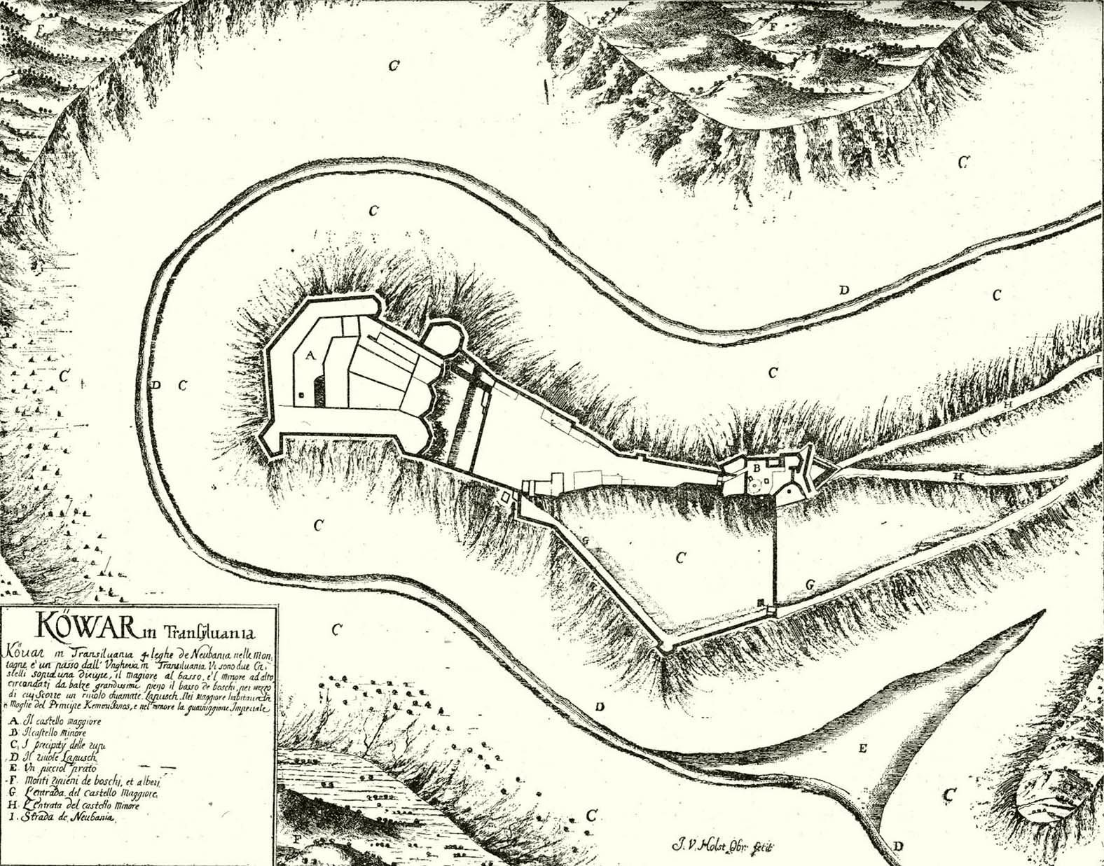 Kővár 17. századi alaprajza, Erdély